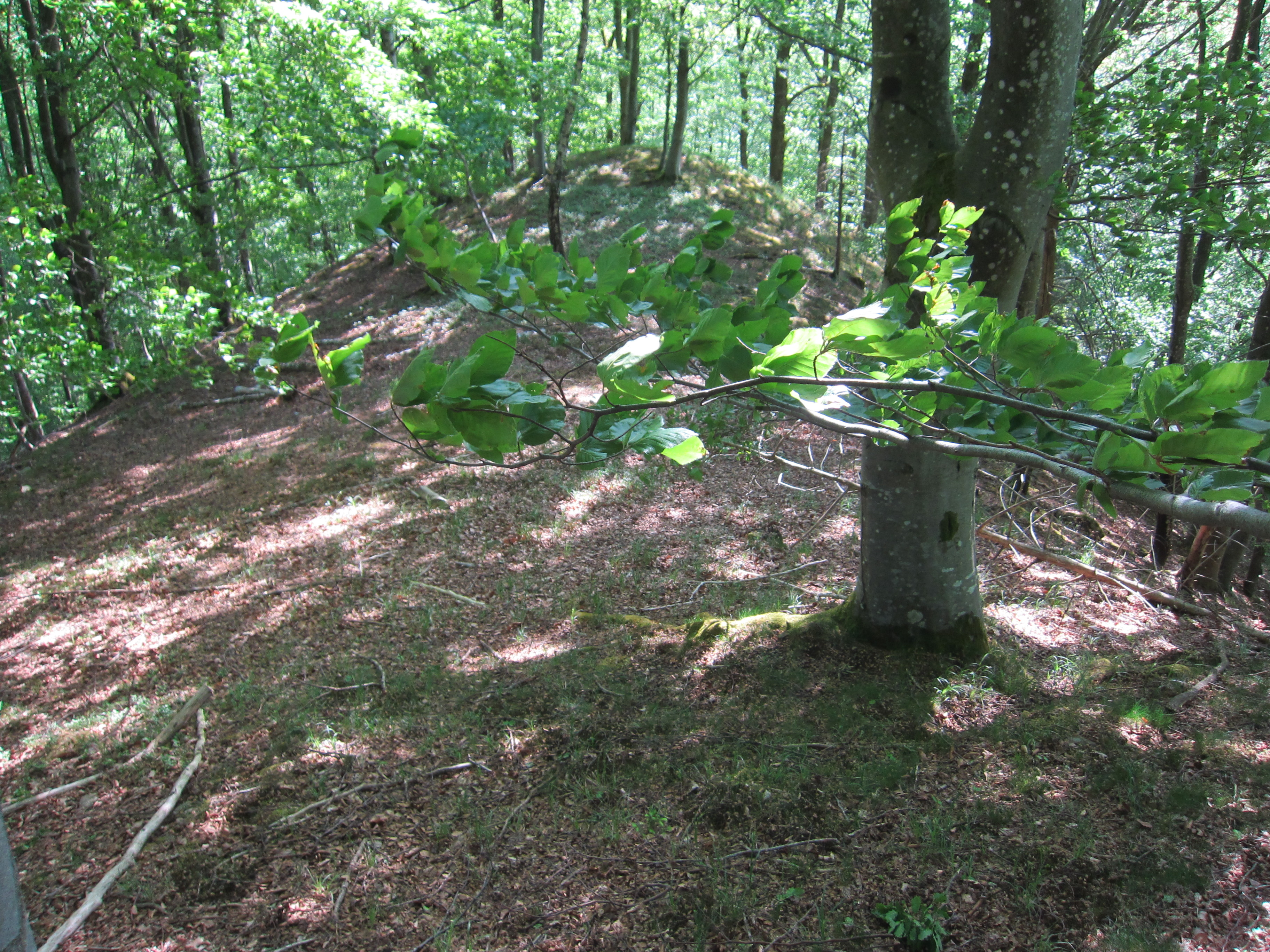 Schlossbühl, eastern hill (looking towards east)